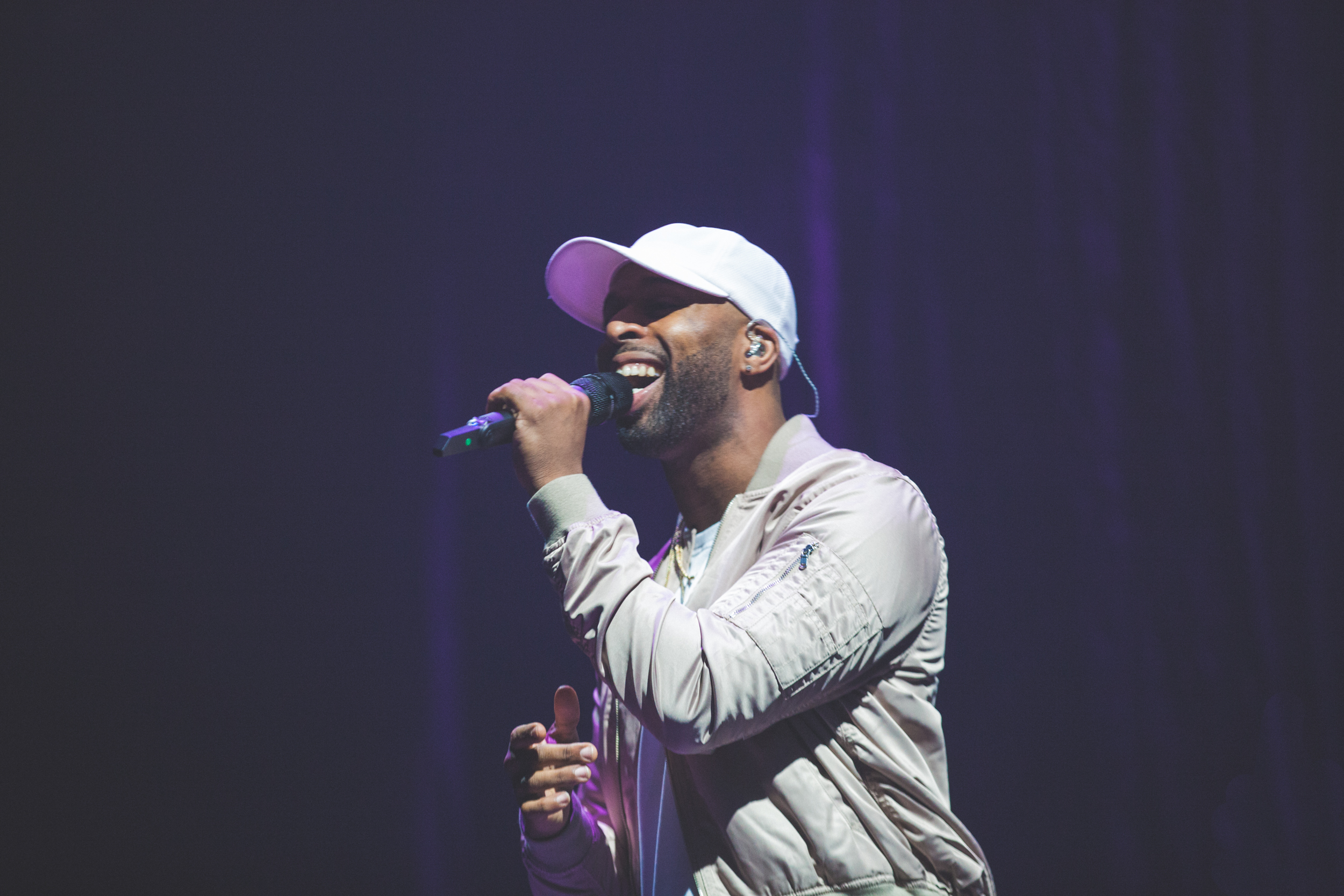 Drake and Future 2016 Summer Sixteen Tour featuring Baka, Roy Woods, and DVSN at the Air Canada Centre in Toronto. Photography by Charito Yap